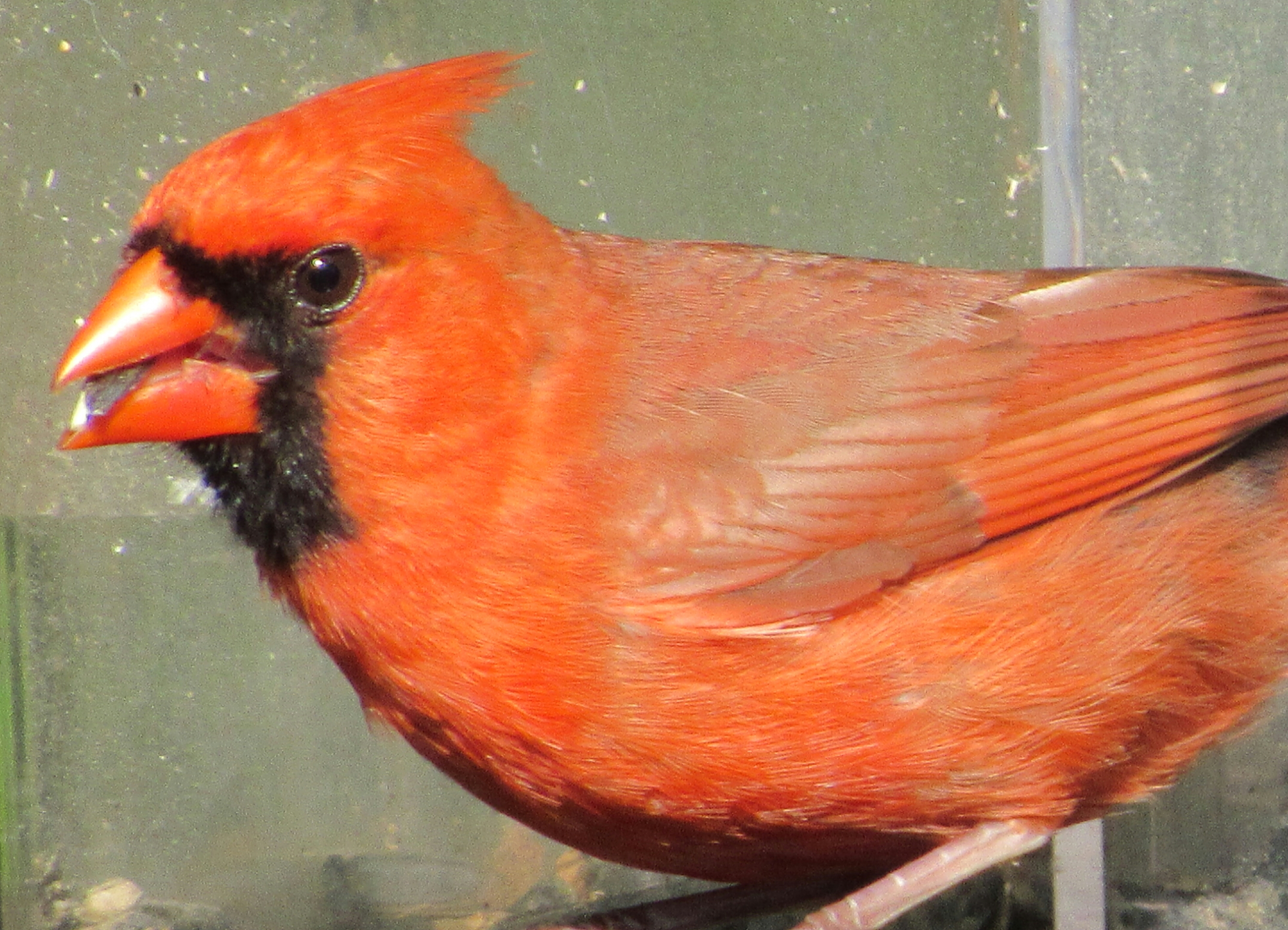 Am American male cardinal feeds on a sunflower seed.